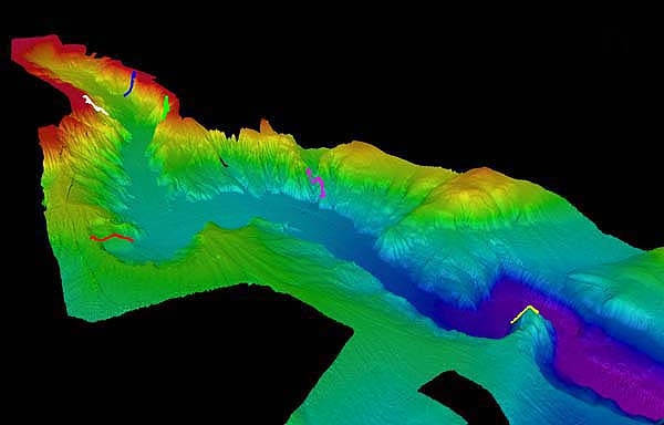 3-D view of Astoria Canyon, west of the Columbia River entrance showing locations of science transects (appear as colored ribbons on canyon walls) Image ID: map00150, Voyage To Inner Space - Exploring the Seas With NOAA Collect Location: Pacific Ocean, Oregon offshore